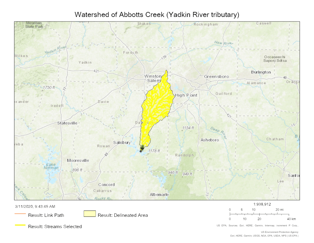 Map of the watershed of Abbotts Creek (Yadkin River tributary) in Davidson and Forsyth Counties, North Carolina.